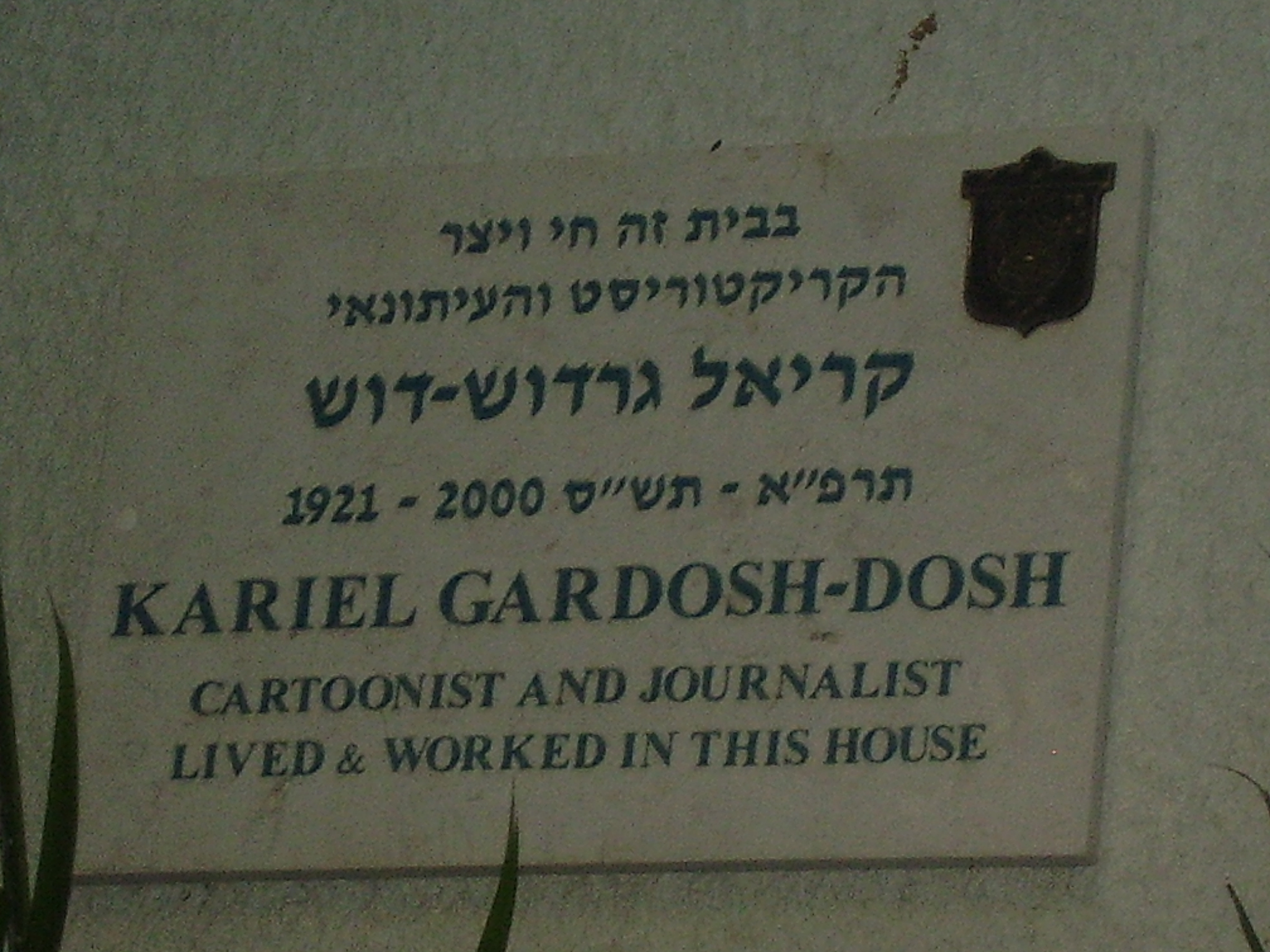 memorial plaque on the house of the cartoonist kariel gardosh in tel aviv לוחית זיכרון על ביתו של העתונאי והקריקטוריס קריאל גרדוש ברח' קליי 18 בתל אביב